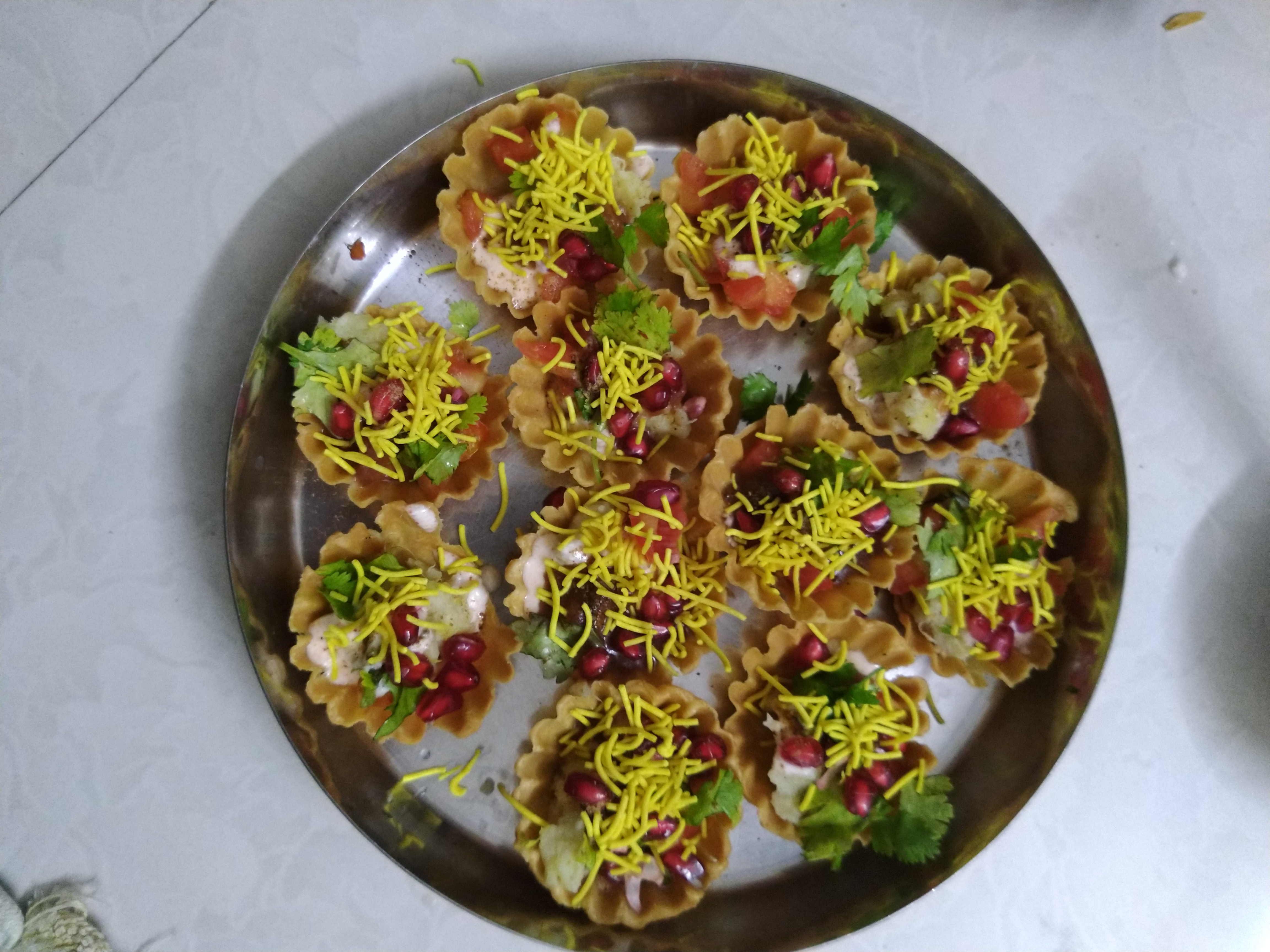 Basket Chat, an Indian snack